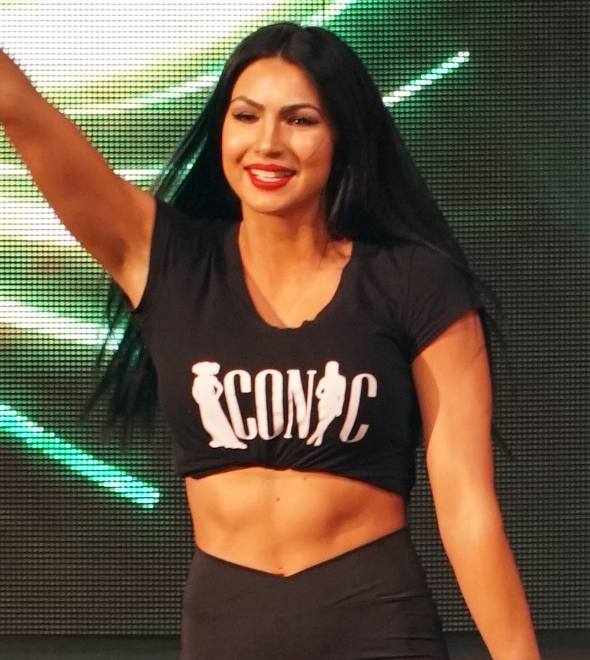 NOLA 2018 - WWE Axxess - Saturday - Peyton Royce Vs Kairi Sane Peyton Royce def. Kairi Sane ( Deux semaines a Nola pour la ville et pour WWE Wrestlemania XXXIV Two weeks Nola for the city and for WWE Wrestlemania XXXIV )